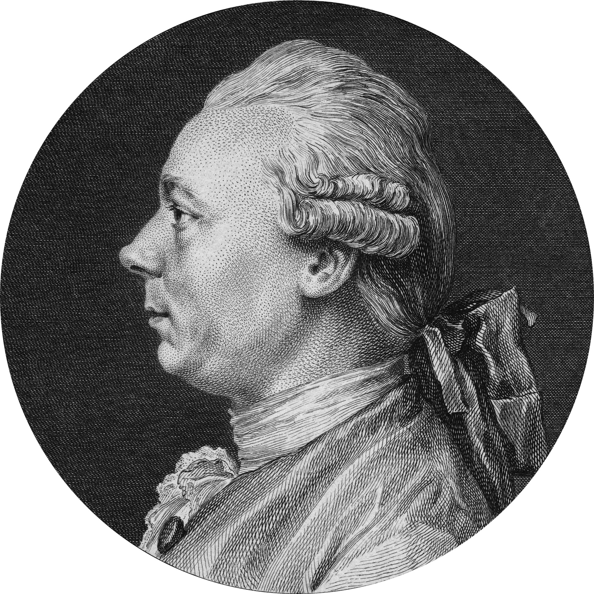 François-André Danican Philidor, French chess player and composer, 1726-1795, son of the court composer of Louis XIV, André Danican Philidor